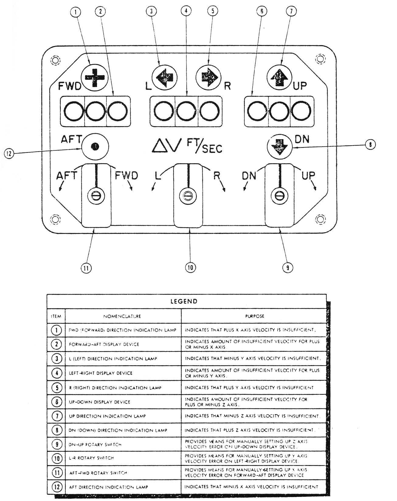 Incremental Velocity Indicator of the Gemini Digital Computer